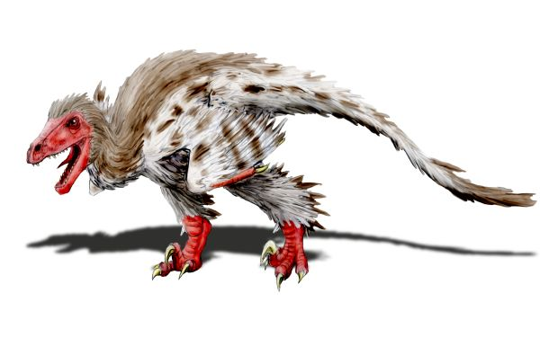 Balaur bondoc